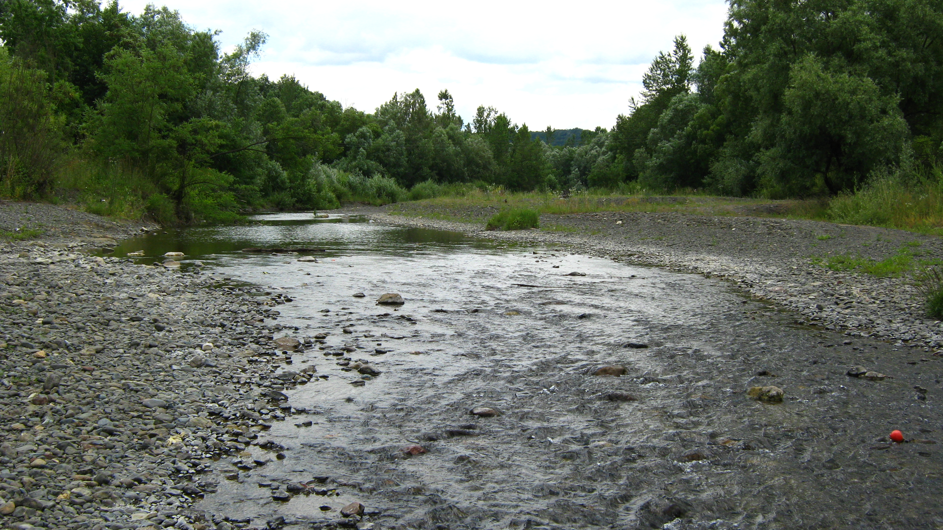 River Mala Ukrina